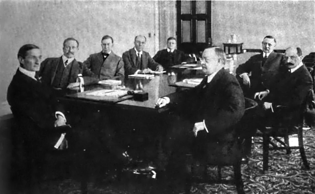 1917 photograph of the board of the Federal Reserve of the United States.